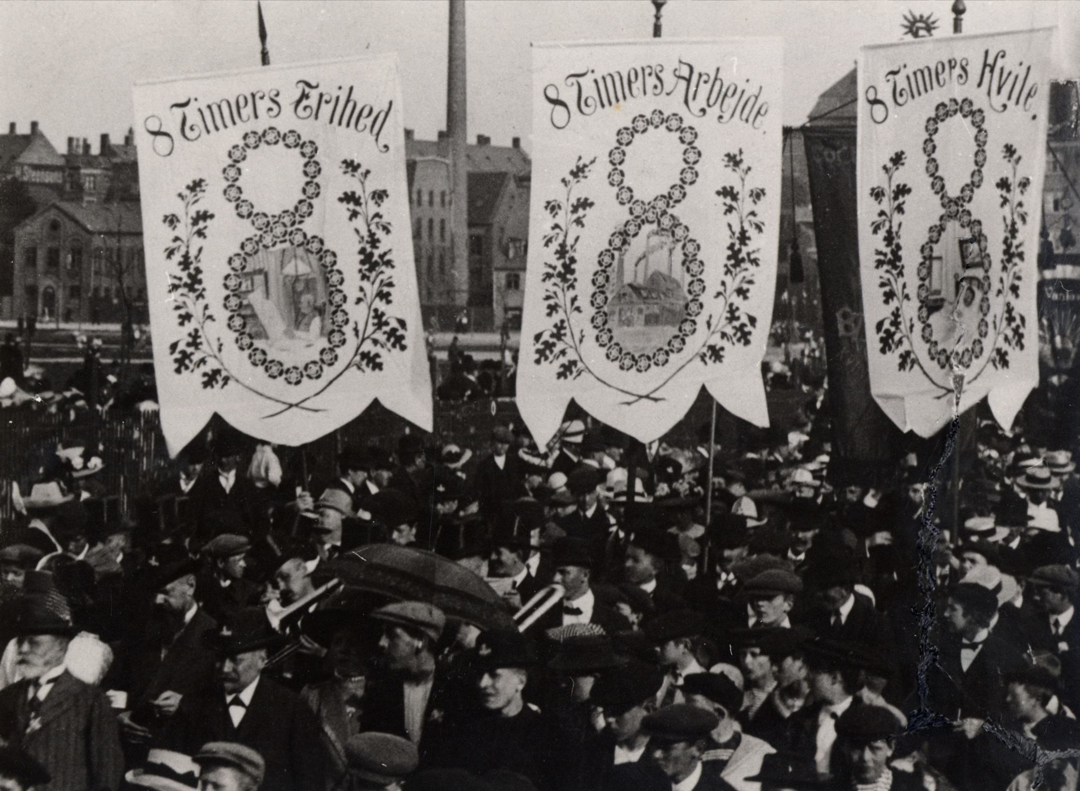 Demonstrators carry three banners with three eights in Denmark. In 1912, the trade union movement required 8 hours of work, 8 hours of freedom and 8 hours of rest. Banner is in Danish. Source: Arbejderbevægelsens Bibliotek og Arkiv